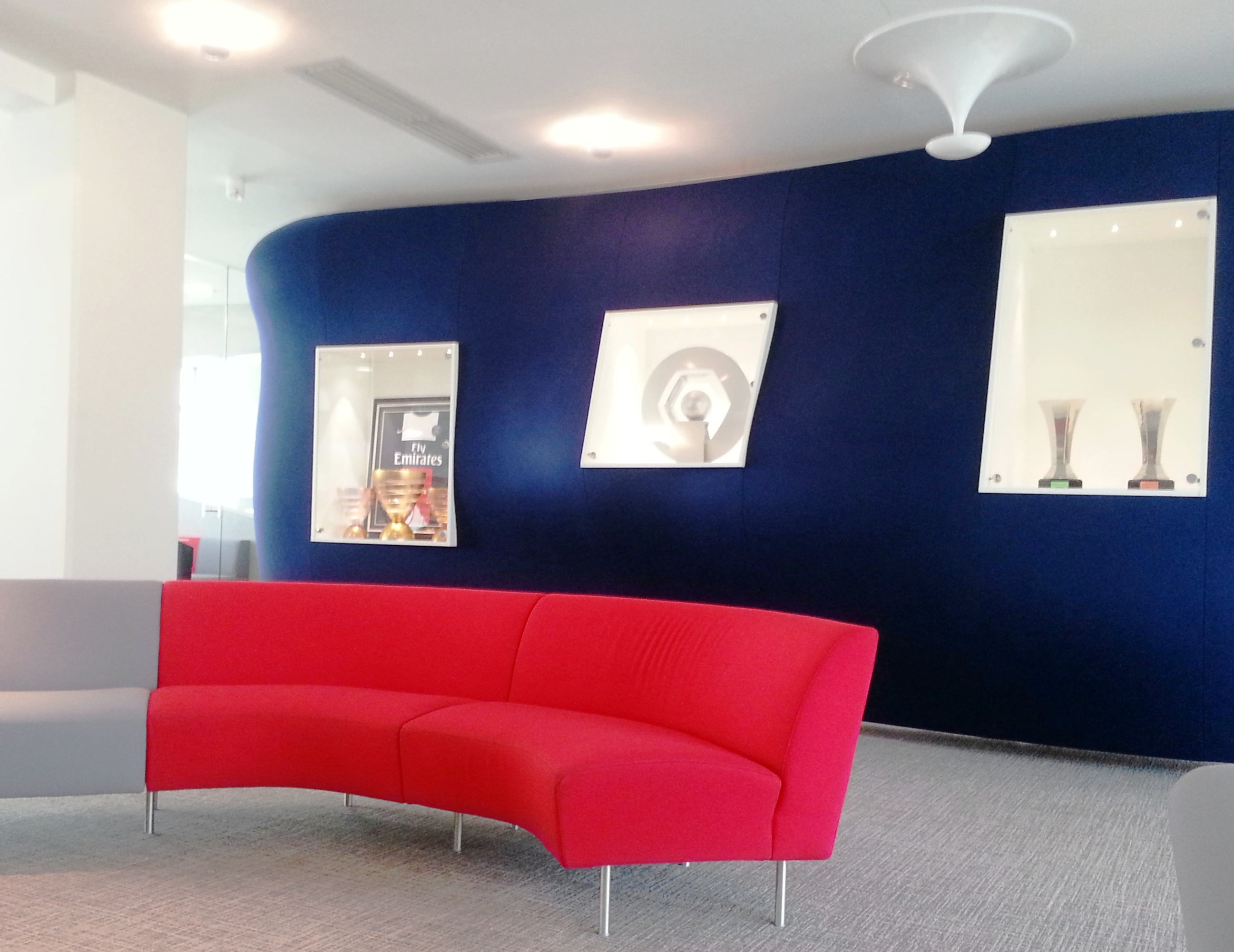 Trophies exhibition at Paris Saint-Germain FC headquarters